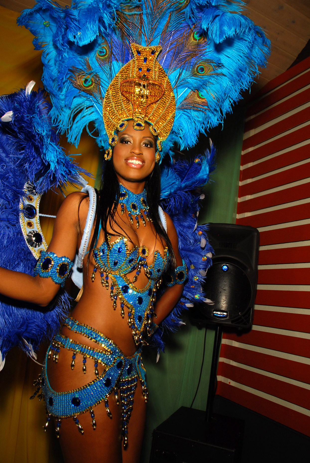 Samba Dancer in costume - photo by Glenn Francis of